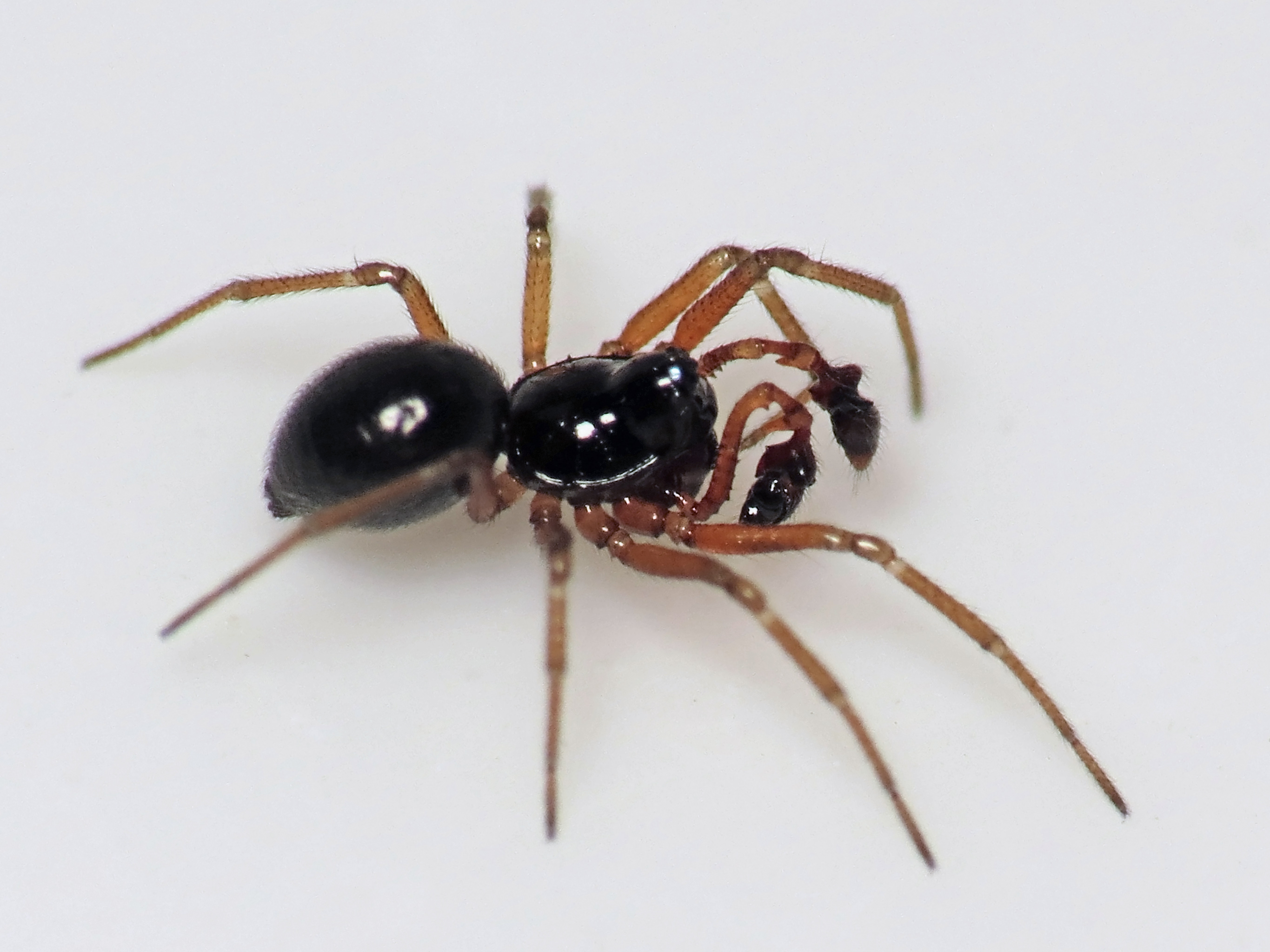 Only a few mm long, money spiders launch themselves into the air on threads of gossamer. If one lands on you, it is said to be a lucky sign that you will be coming into money. This one was found in a flower of the Castor Oil plant ( Fatsia japonica) in my garden (Ipswich, East Suffolk, TM166450) on 10 November 2015. The majority of these small spiders are in the family Linyphiidae, a huge family of hundreds of species that make up about 40% of the spiders in Britain. My Locket and Millidge British Spiders book has a key to the family which relies on the position of hairs and spines on various segments of the legs. I found it really difficult to see the relevant characteristics through my microscope. However, a hopeful web search led me to a photo of an example of the genus Erigone which resembled my specimen. My book includes some detailed drawings of the male palps (or at least parts of them) of various Erigone species, and the nearest match I could find was Erigone dentipalpis, which presumably means "toothed palps". Unfortunately there are other species, such as E promiscua, which also have teeth on their palps. Paul Lee (Suffolk Spider Recorder) couldn't be certain of the species from my photos but, after examining the spider, he confirmed that it was indeed Erigone dentipalpis.